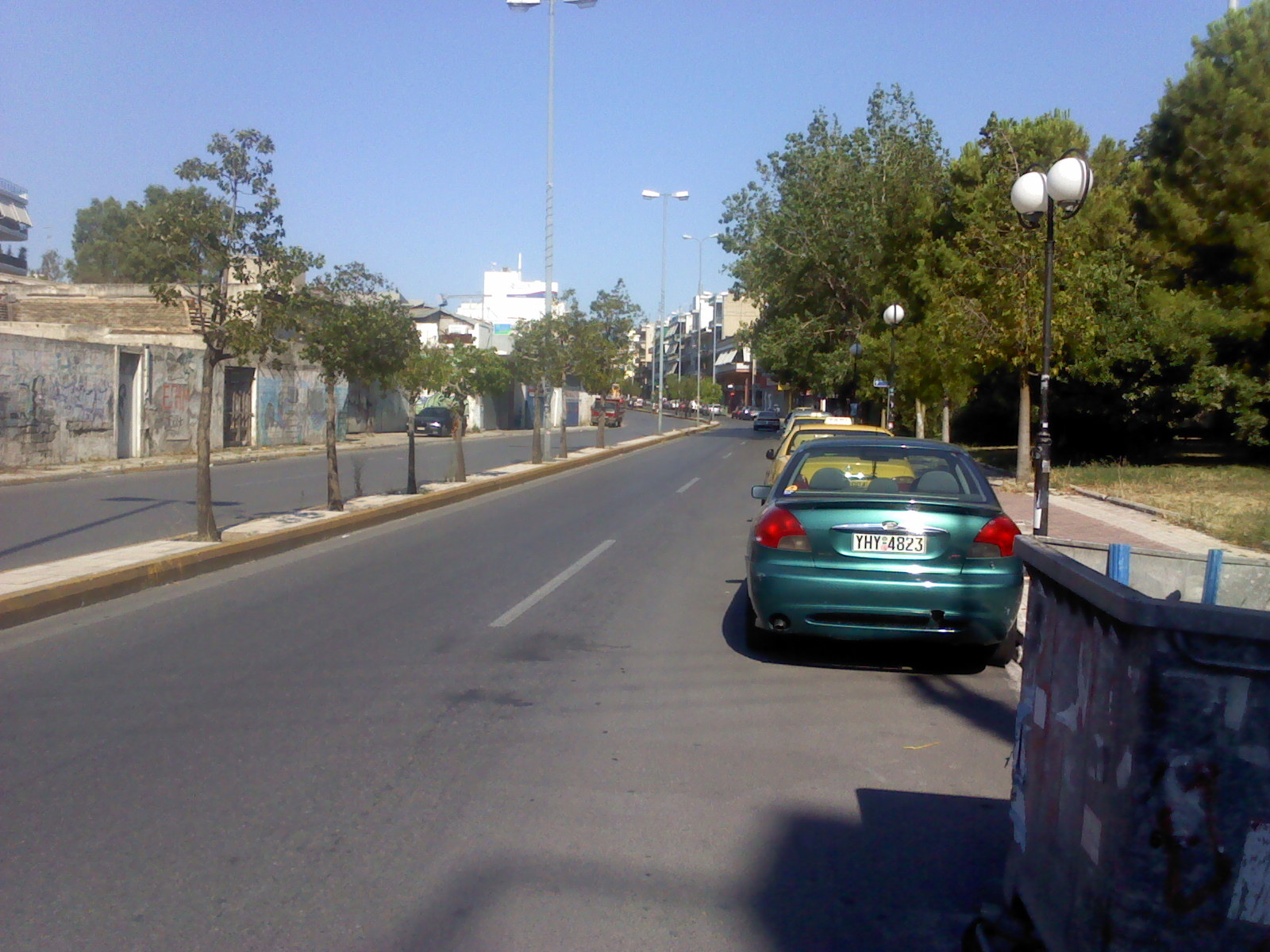 Avenue Dimokratias Keratsini